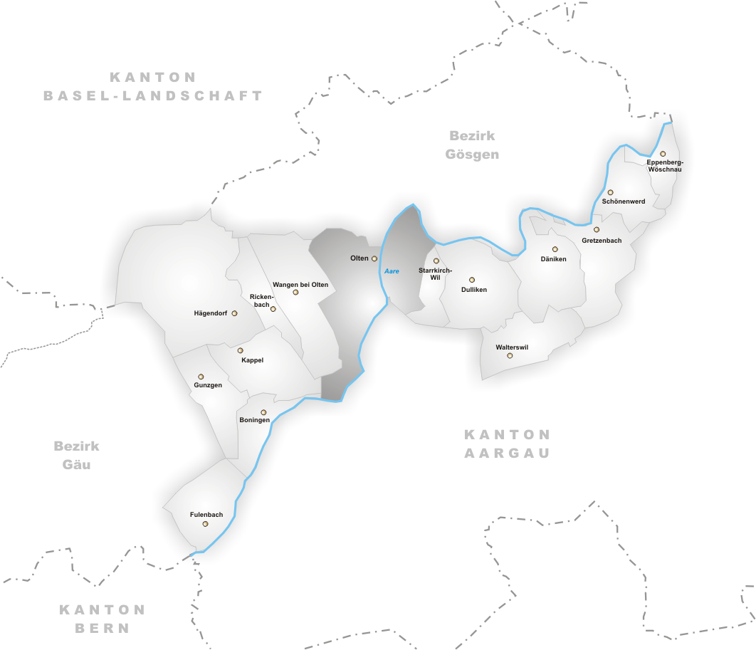 Municipality Olten